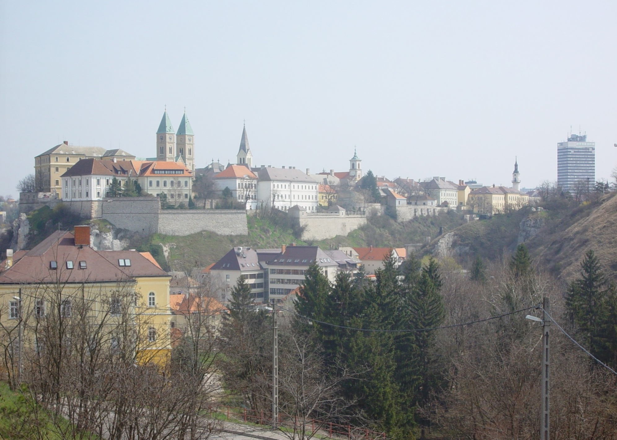 Castle of Veszprém